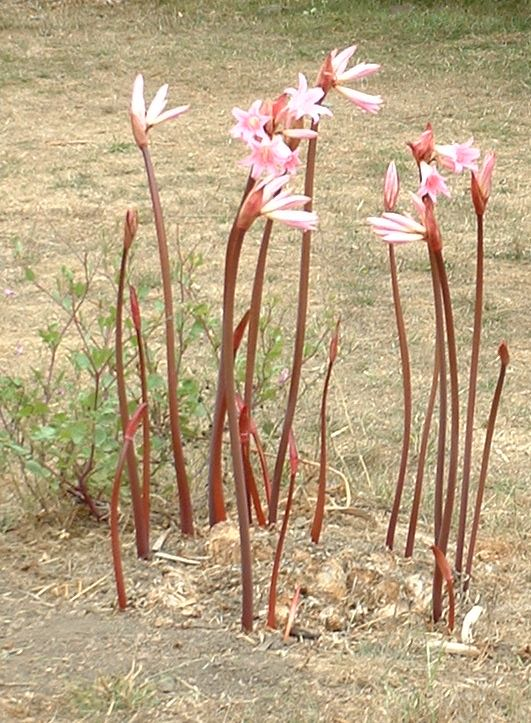 "Naked Lady", Amaryllis belladonna, flowering in northern California, in the Lost Coast state park, Sinkyone Wilderness State Park.